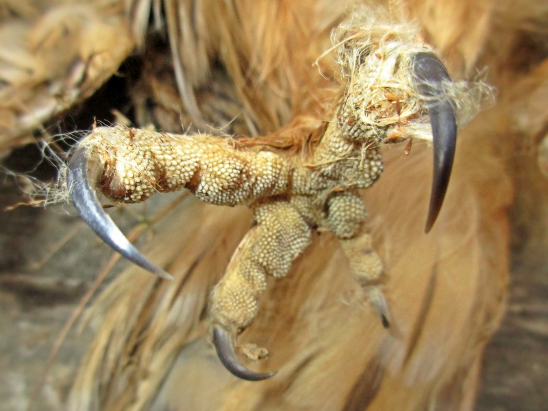 Asio otus (Strigidae) (Long-eared Owl), Elst (Gld) - De Park, the Netherlands